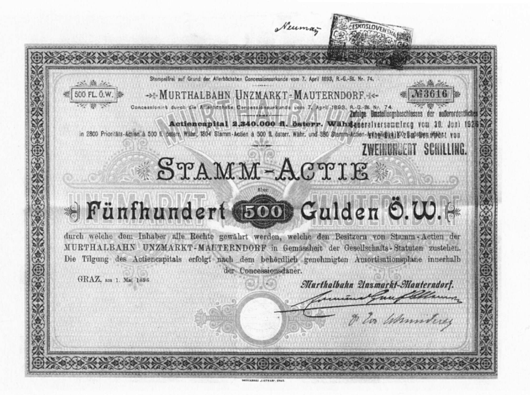 Common share of the Murtalbahn from 1895